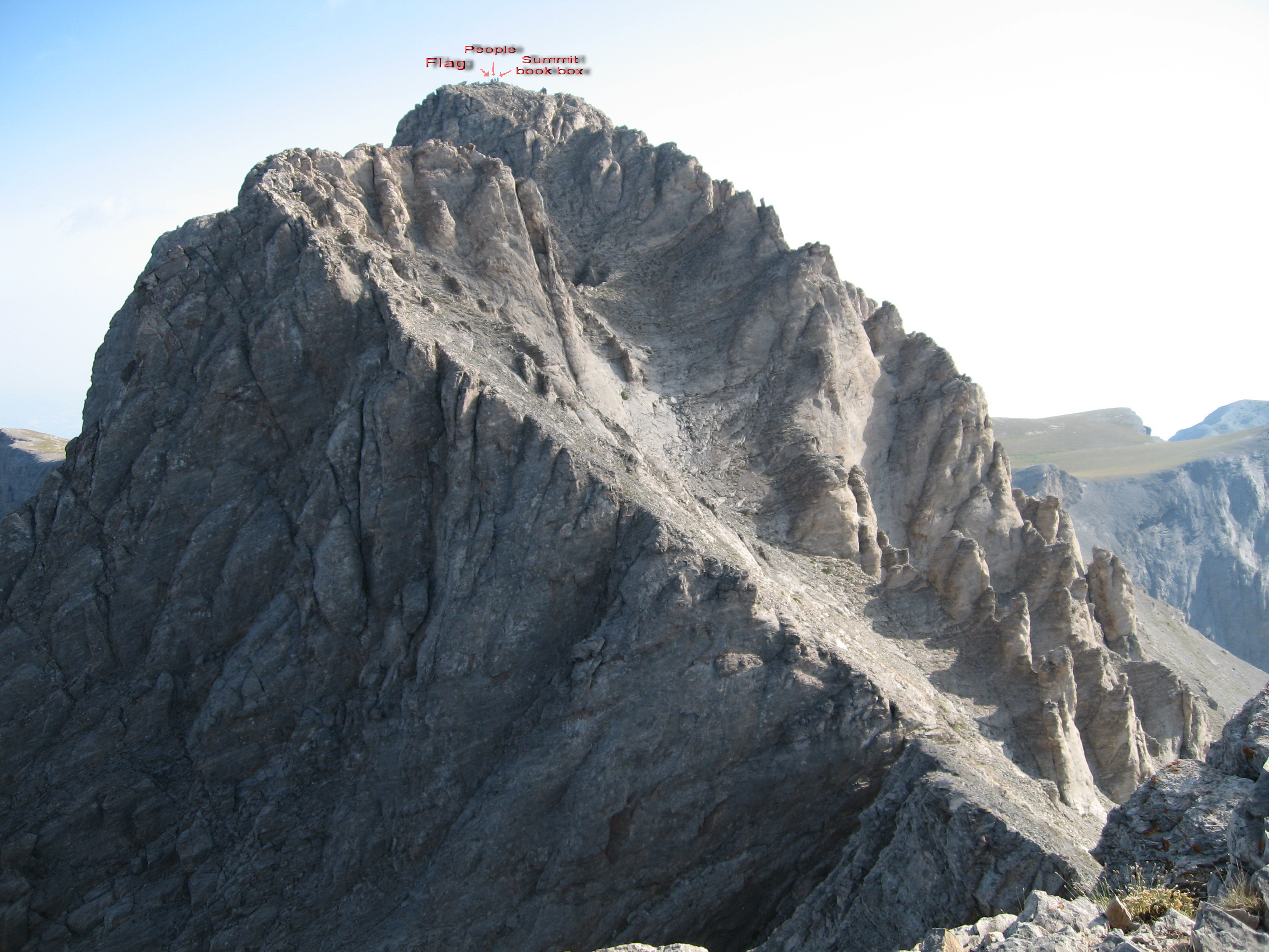 Olympus mountain. View of Mytikas summit from Skala summit. Objects on top of Mytikas explained.